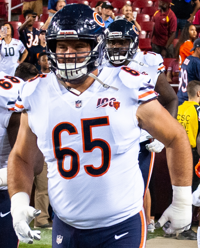 In 2019